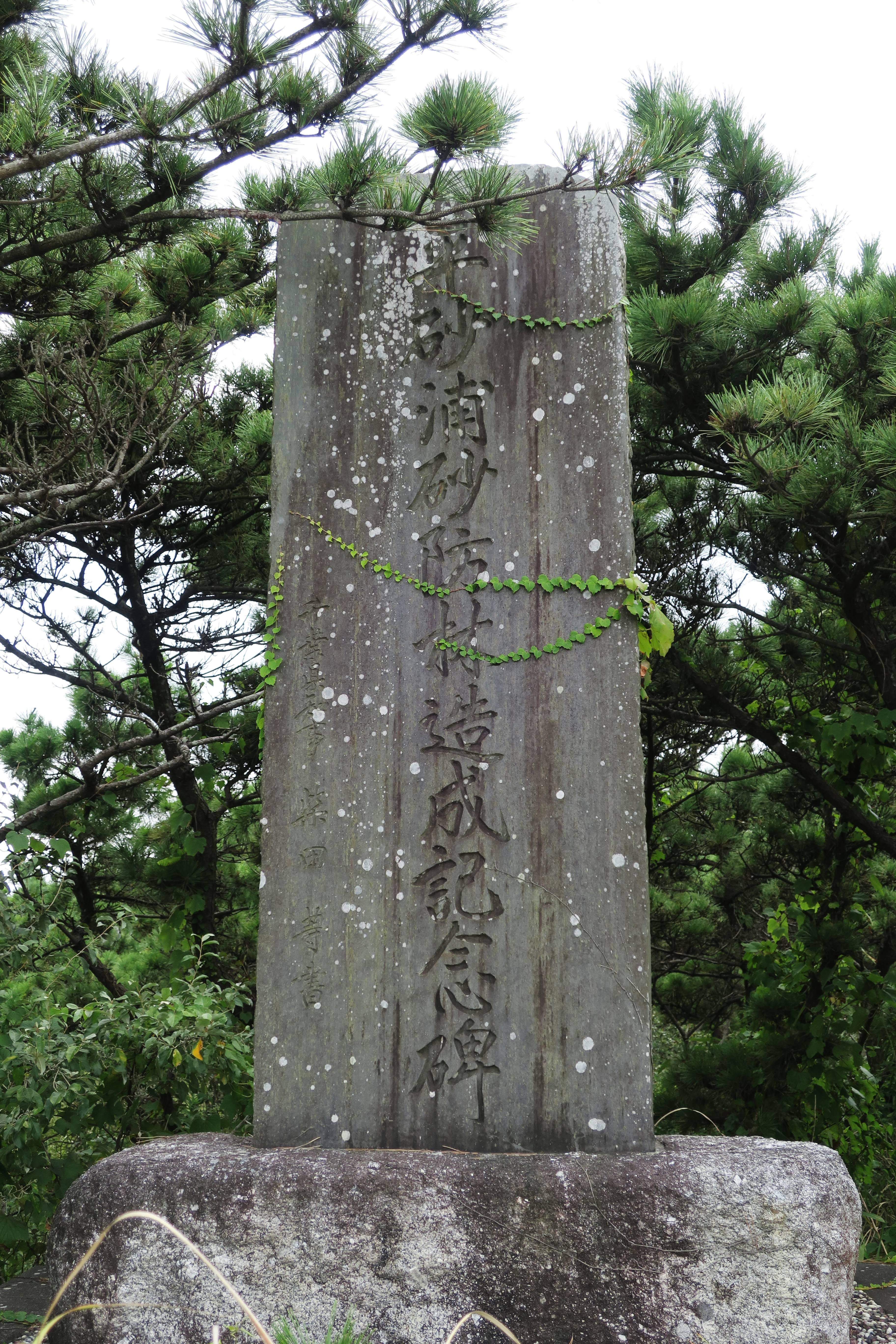 Heisaura-saborin monument (Tateyama, Chiba).